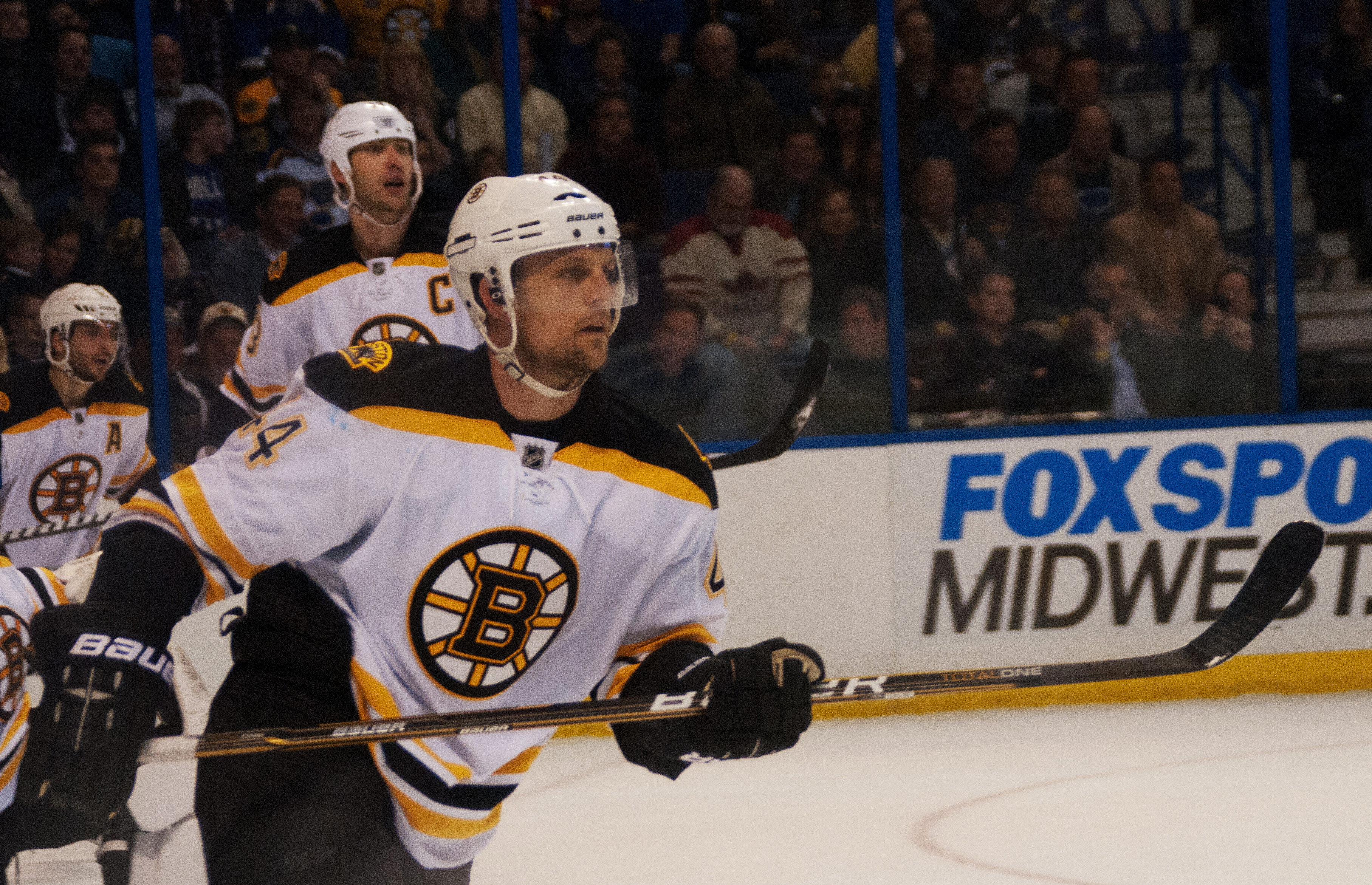 Dennis Seidenberg of the Boston Bruins